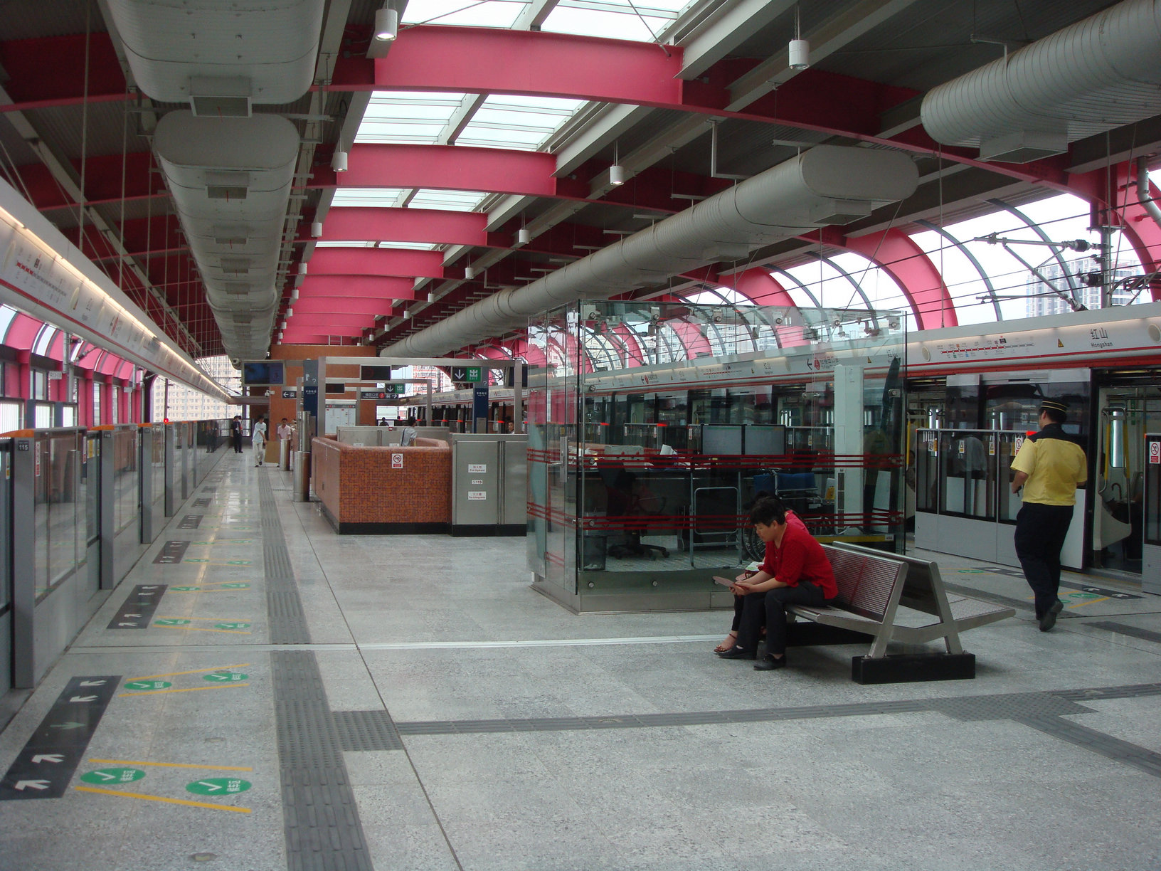 Hongshan Station of Longhua Line, Shenzhen Metro.